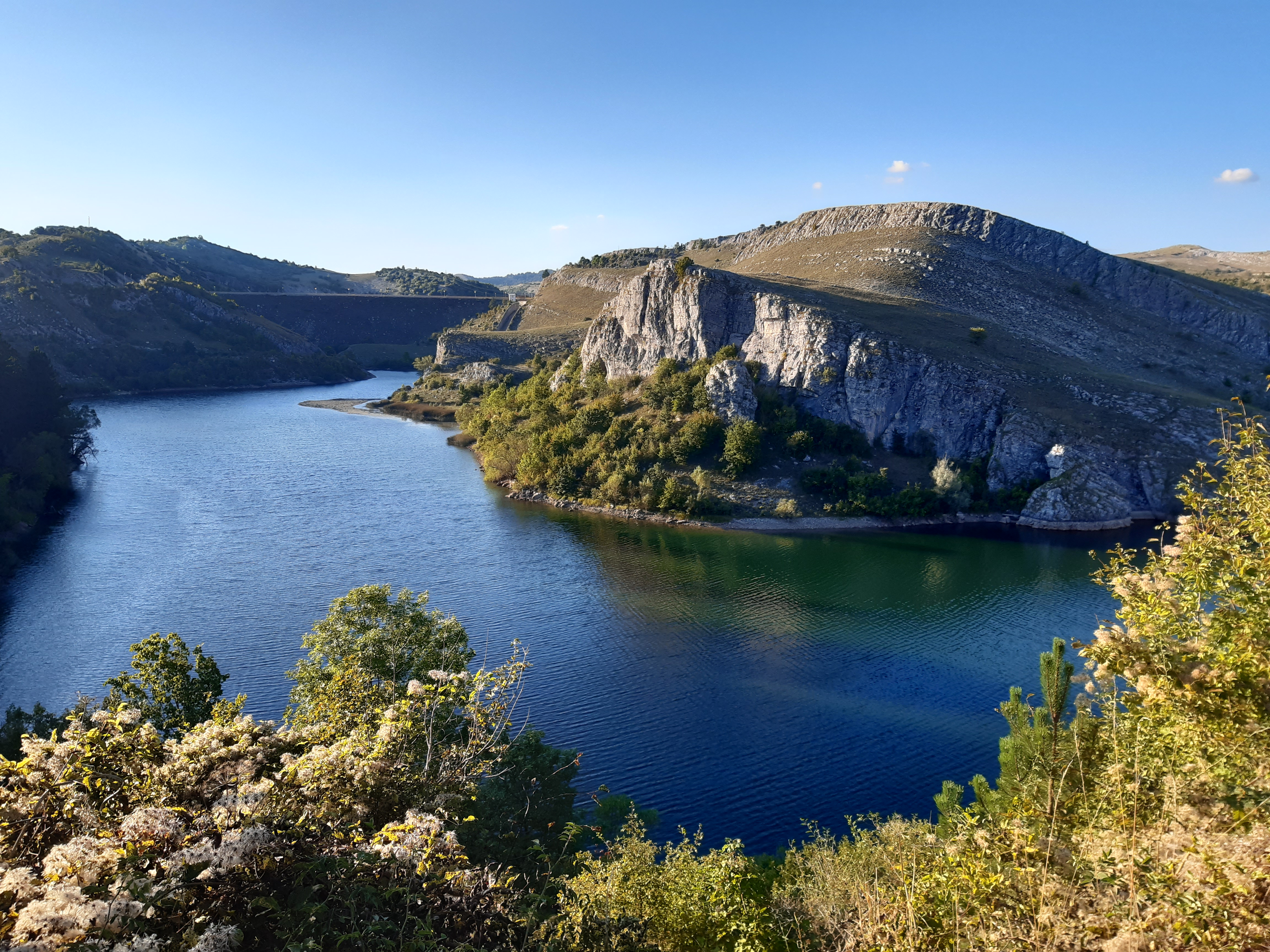 Srpski (latinica): Jezero Klinje (Gacko). This image was uploaded as part of Trace of Soul 2019.